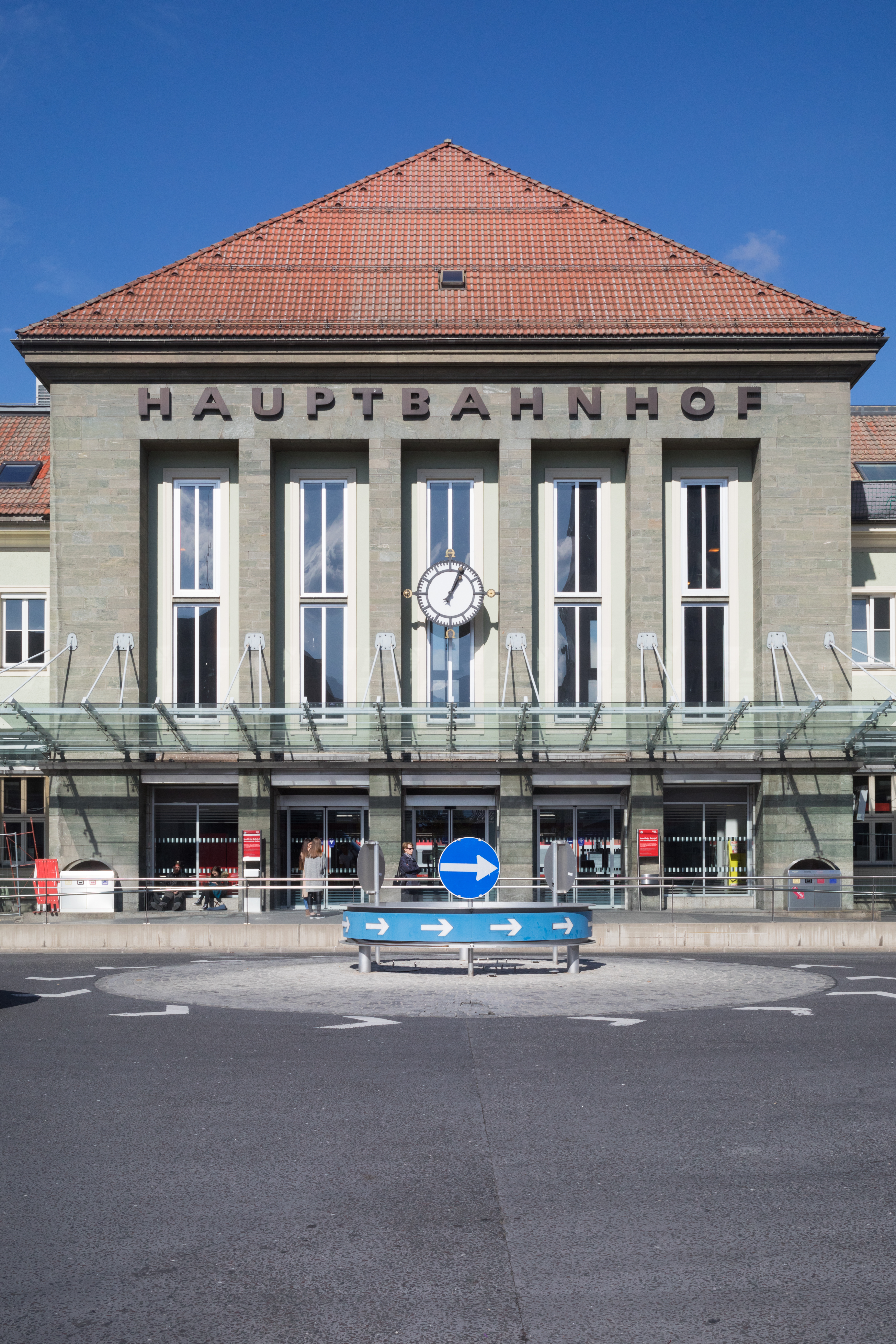 The outside of the Station Hall of Villach Main Station.